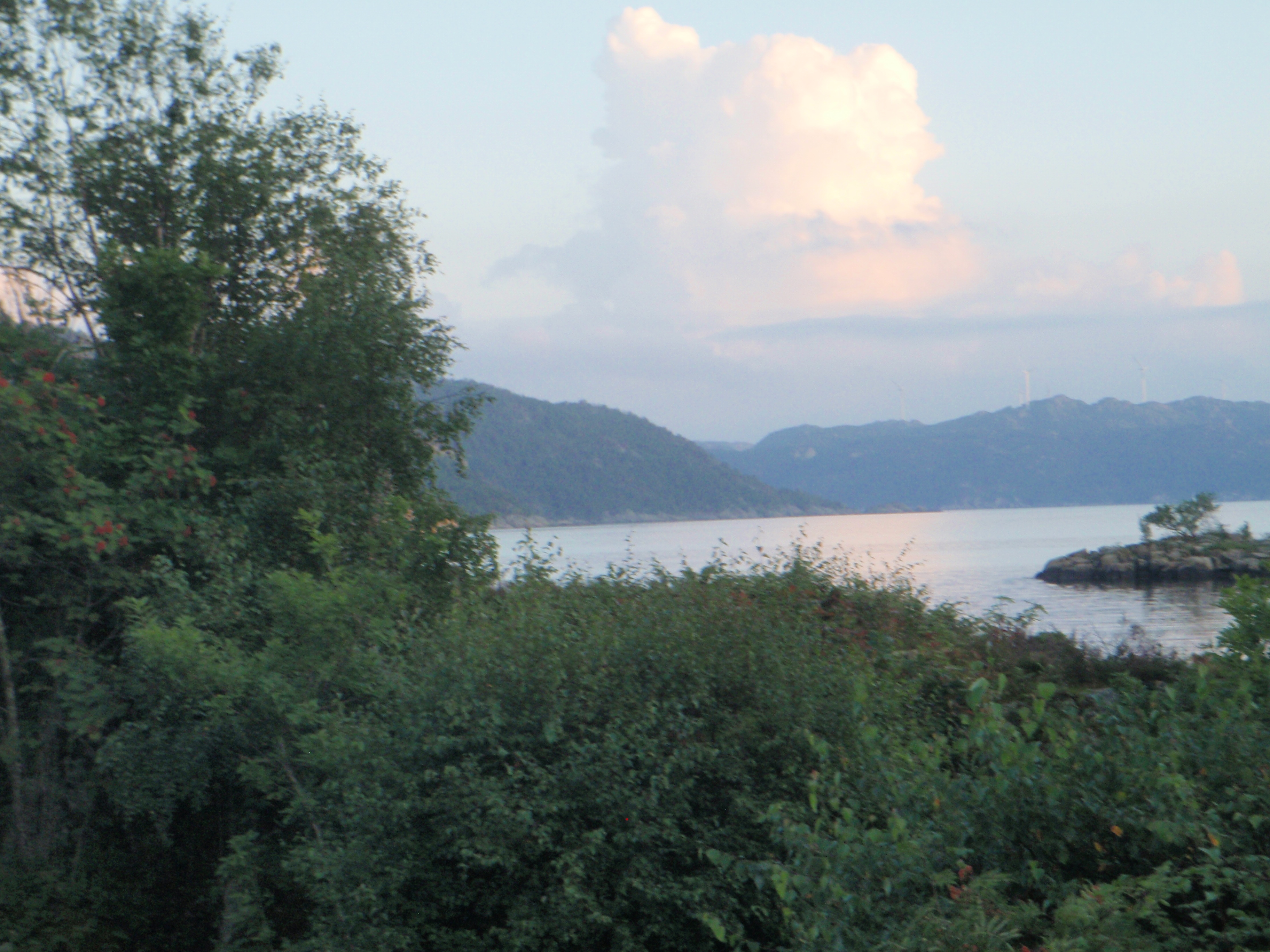 The cape in center of pix is named Katteraua (cat's tail): coordinates given in Norwegian article.